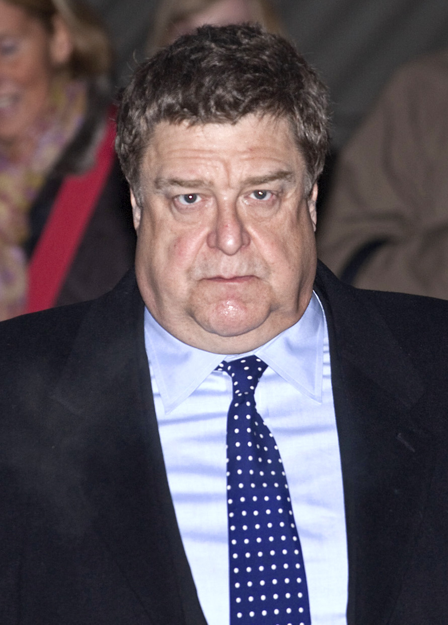 Actor John Goodman leaving the press conference for "In the Electric Mist"